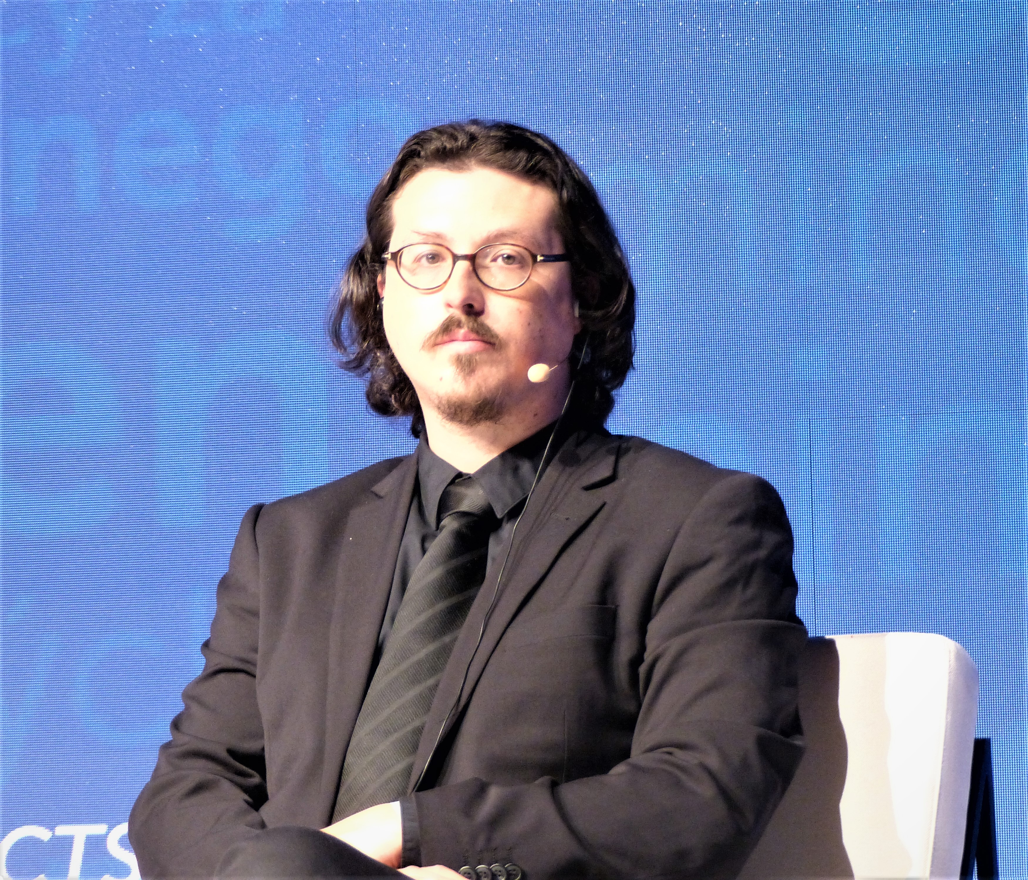 David Engels. The Future of Europe. V4 Connects. International conference, held on the 23rd and 24th of May, 2018, Várkert Bazár, Budapest, Central Europe. Taken on the first day of the conference, Wednesday, the 23rd of May, 2018. PANEL DISCUSSION: CULTURE WARS; CLASHES OF CULTURES IN EUROPE Moderator: Mr. Gábor Tallai , Program Director of the House of Terror Museum, Hungary